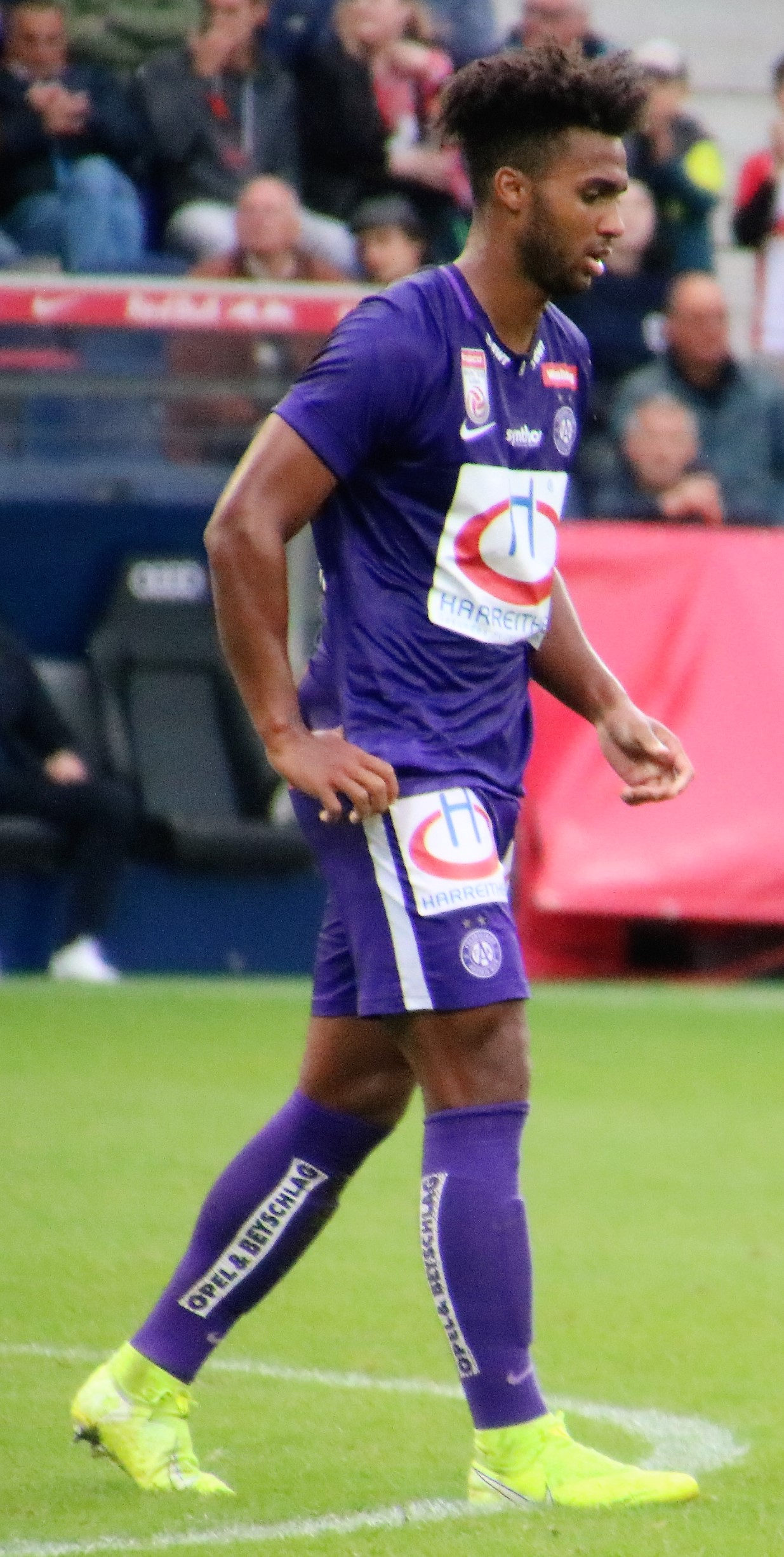 league match Austrian Bundesliga